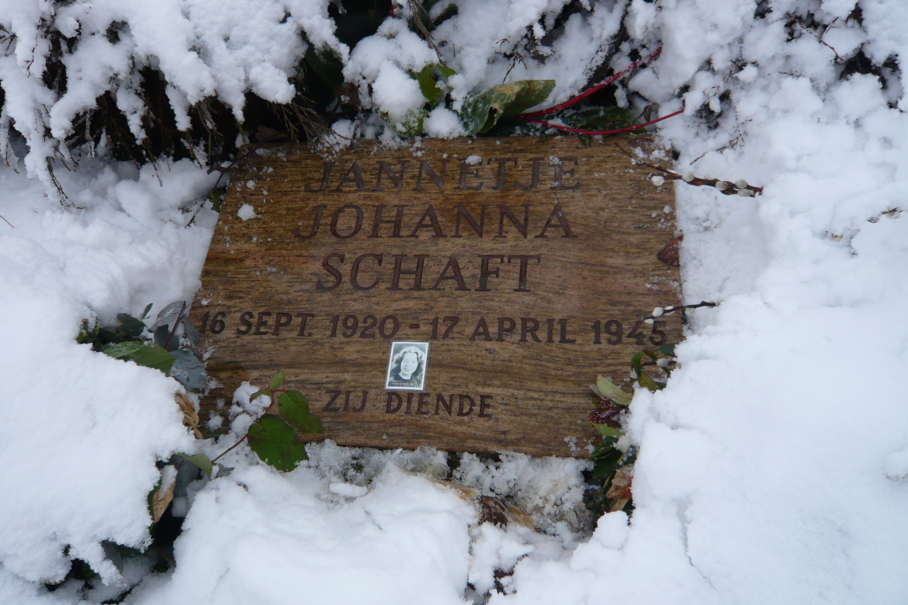 Gravestone of Dutch resistance fighter Hannie Schaft (1920-1945), with her school photograph on it, at the Erebegraafplaats Bloemendaal.